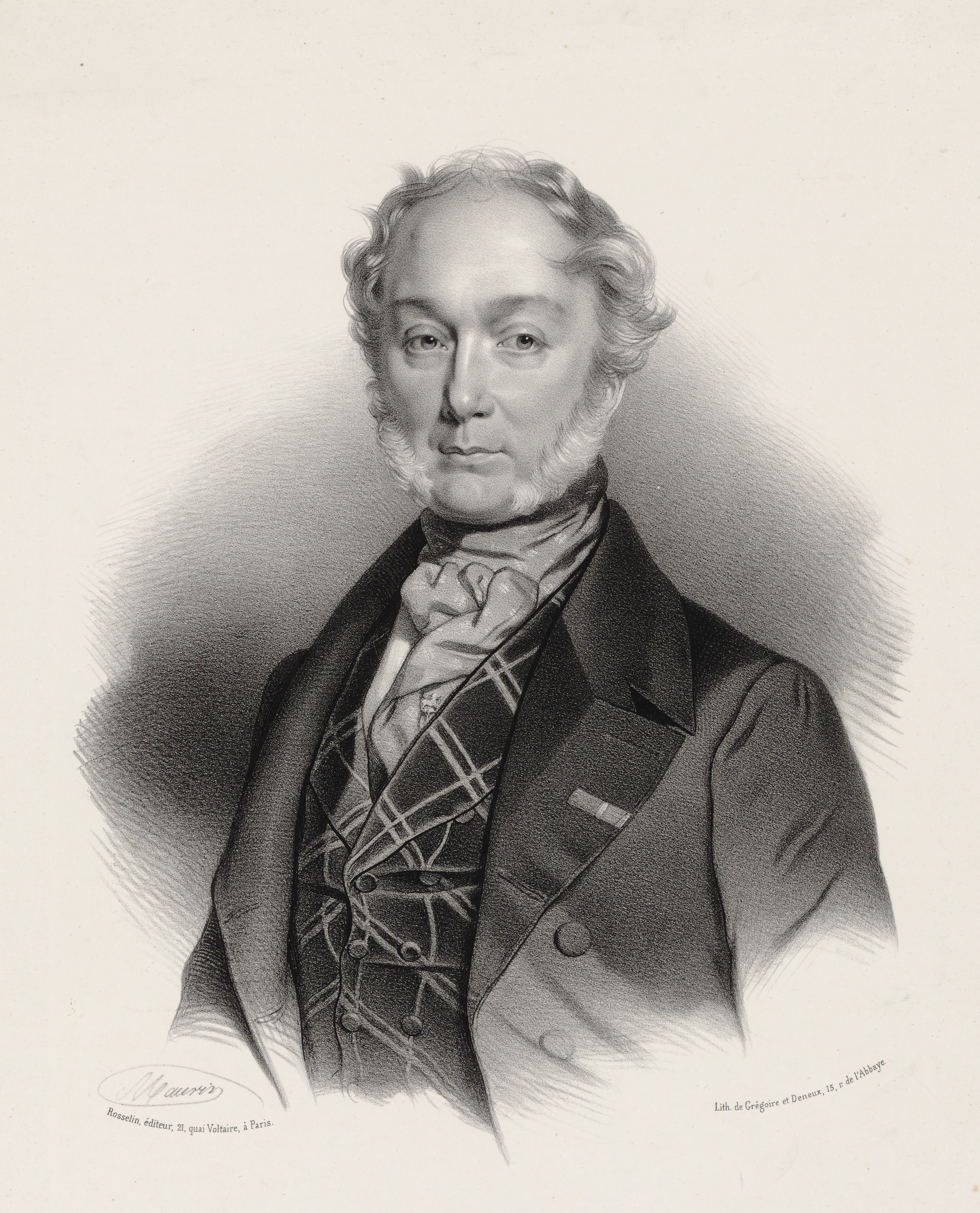 Italian composer Michele Enrico Carafa (1787-1872) by Antoine Maurin (1793-1860)